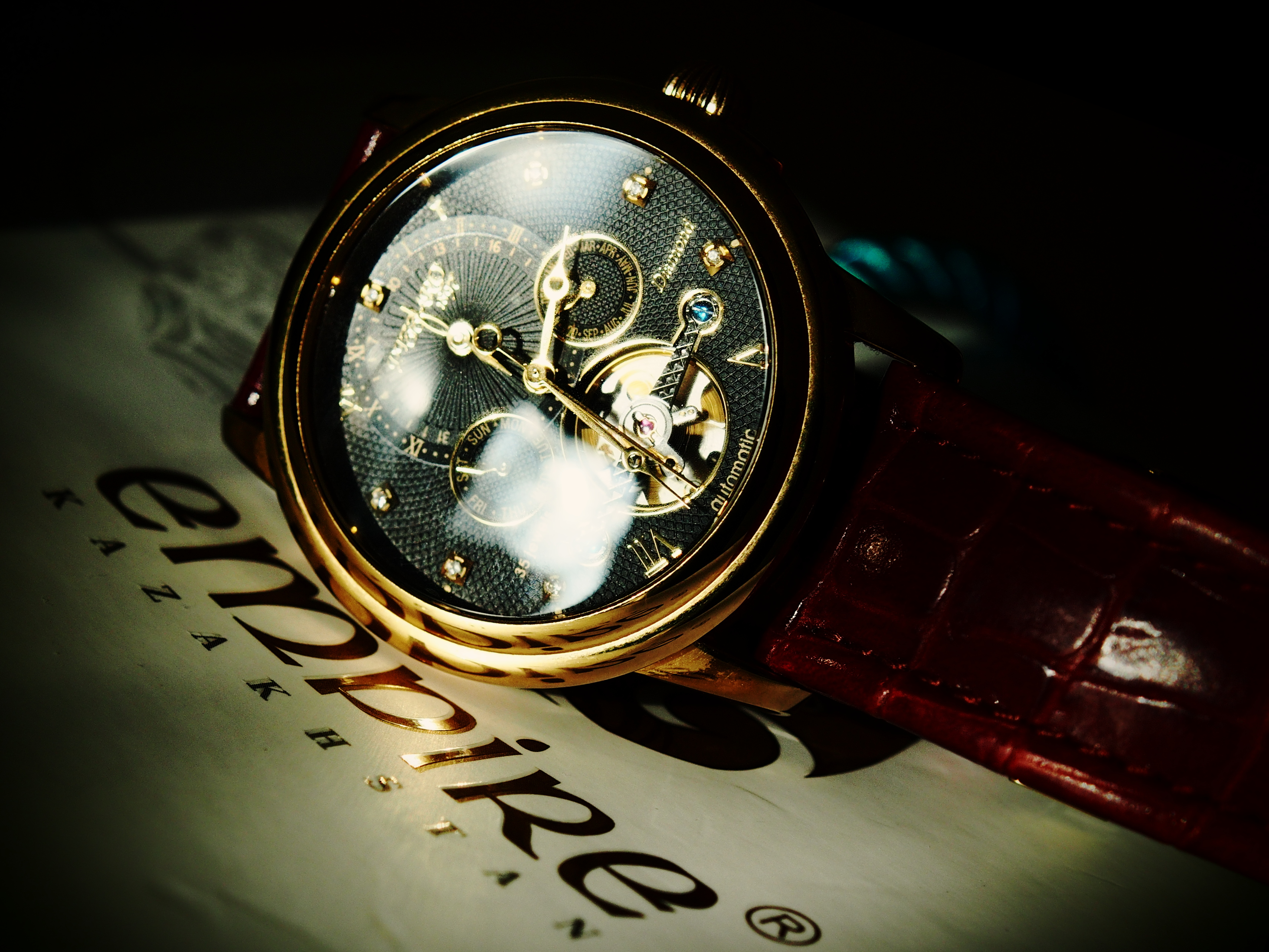 Mechanical wristwatch made of jewels with self-winding mechanism.